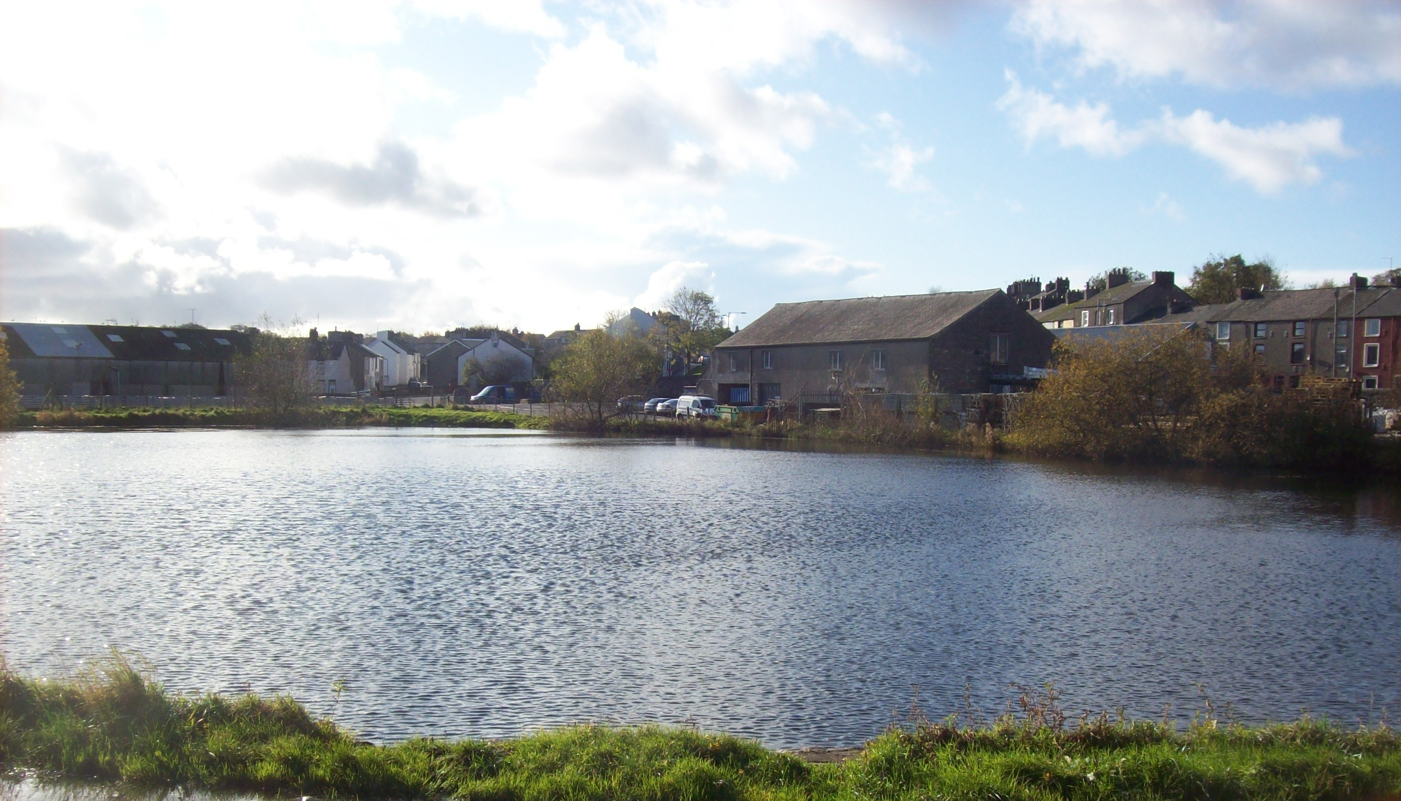 The start of Ulverston Canal, the deepest, widest,straightest and smelliest canal in the UK.